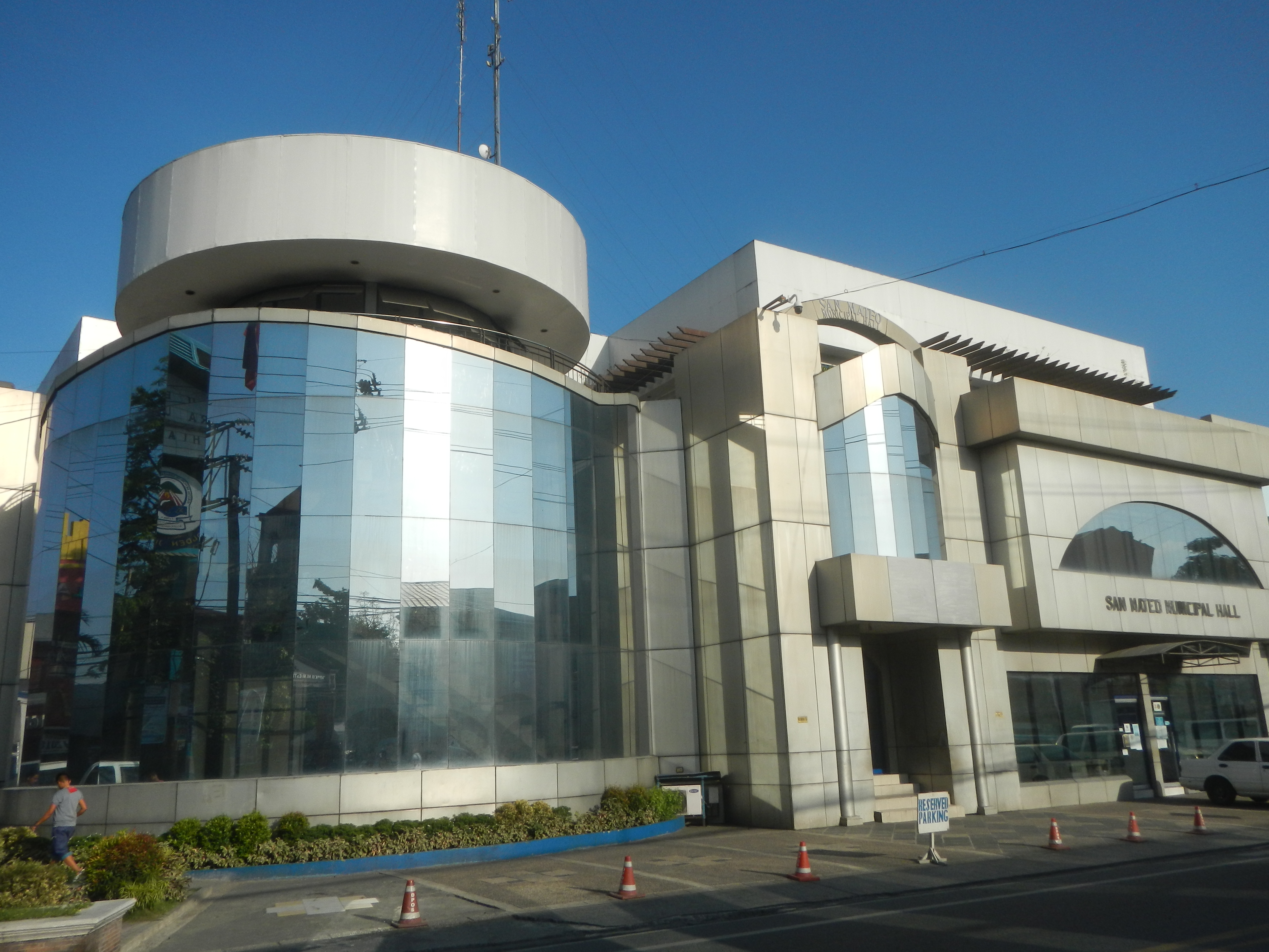 San Mateo Municipal Hall Diocesan Shrine of Our Lady of Aranzazu Nuestra Señora de Aranzazu Parochial School San Mateo Roman Catholic Cemetery (Guitnang Bayan 1, San Mateo, Rizal) Santa Ana, San Mateo, Rizal Ampid-1, San Mateo, Rizal Ampid-2, San Mateo, Rizal Mayor Jose F. Diaz Avenue General Antonio Luna Avenue General Antonio Luna 14°41'3"N 121°6'57"E, Barangays Santo Niño 14°40'10"N 121°8'5"E Gulod Malaya 14°40'39" 121°7'53"E Ampid 1 14°40'47"N 121°7'5"E Ampid 2 14°41'2"N 121°7'13"E Guitnang Bayan 1 14°41'3"N 121°7'56"E Guitnang Bayan 2 14°41'4"N 121°8'54"E Maly 14°42'23"N 121°9'2"E Banaba 14°40'23"N 121°7'3"E, San Mateo, Rizal from Batasan–San Mateo Road Batasan Hills, Quezon City, Metro Manila, formerly known as Constitution Hill, corner Commonwealth Avenue, Quezon City formerly known as Don Mariano Marcos Avenue as part of Radial Road 7 (R-7) to Batasan Road (Note: Judge Florentino Floro, the owner, to repeat, Donor Florentino Floro of all these photos hereby donate gratuitously, freely and unconditionally all these photos to and for Wikimedia Commons, exclusively, for public use of the public domain, and again without any condition whatsoever).